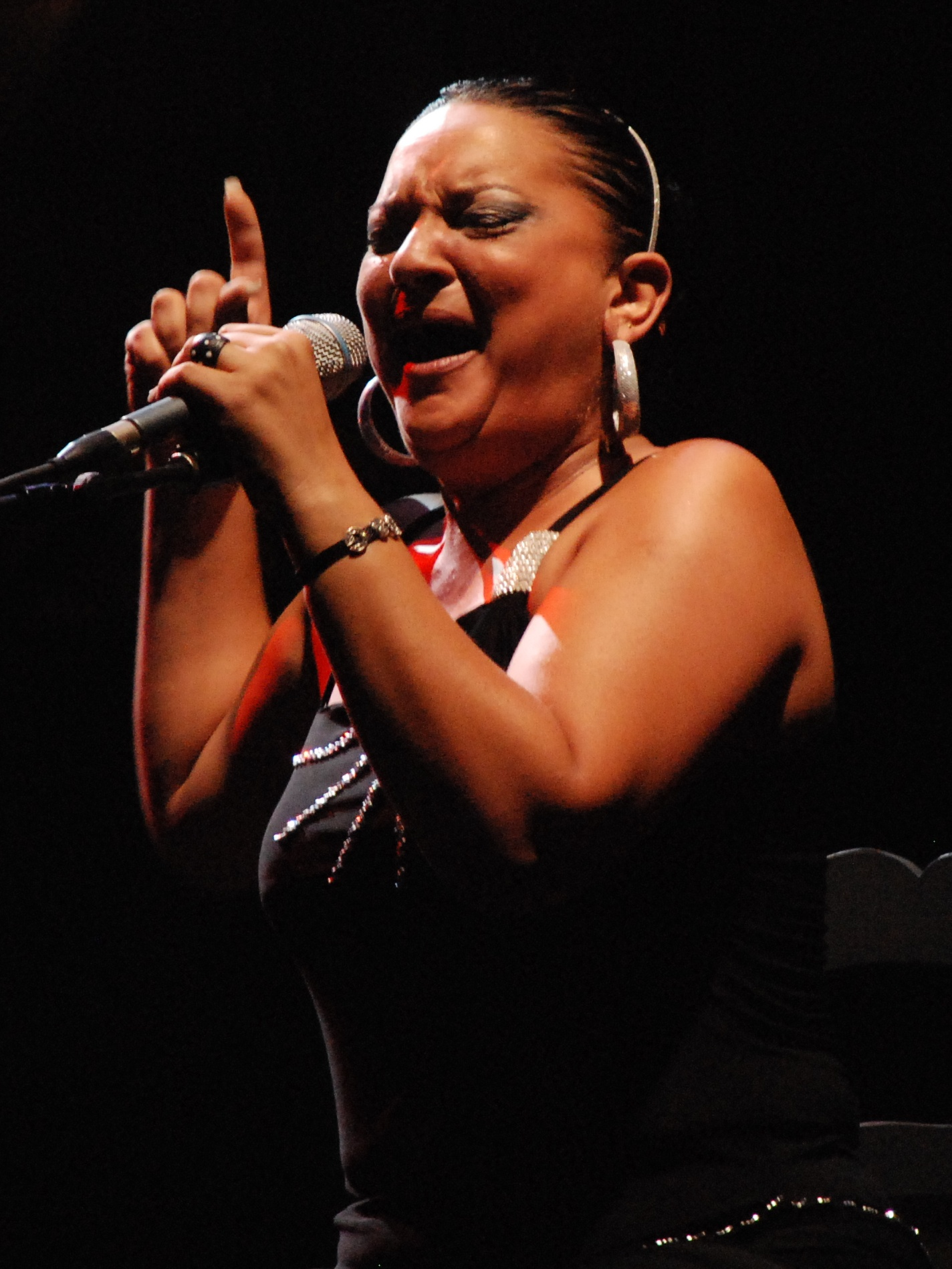 Spanish flamenco singer La Tana performing in Gibralfaro, Malaga.